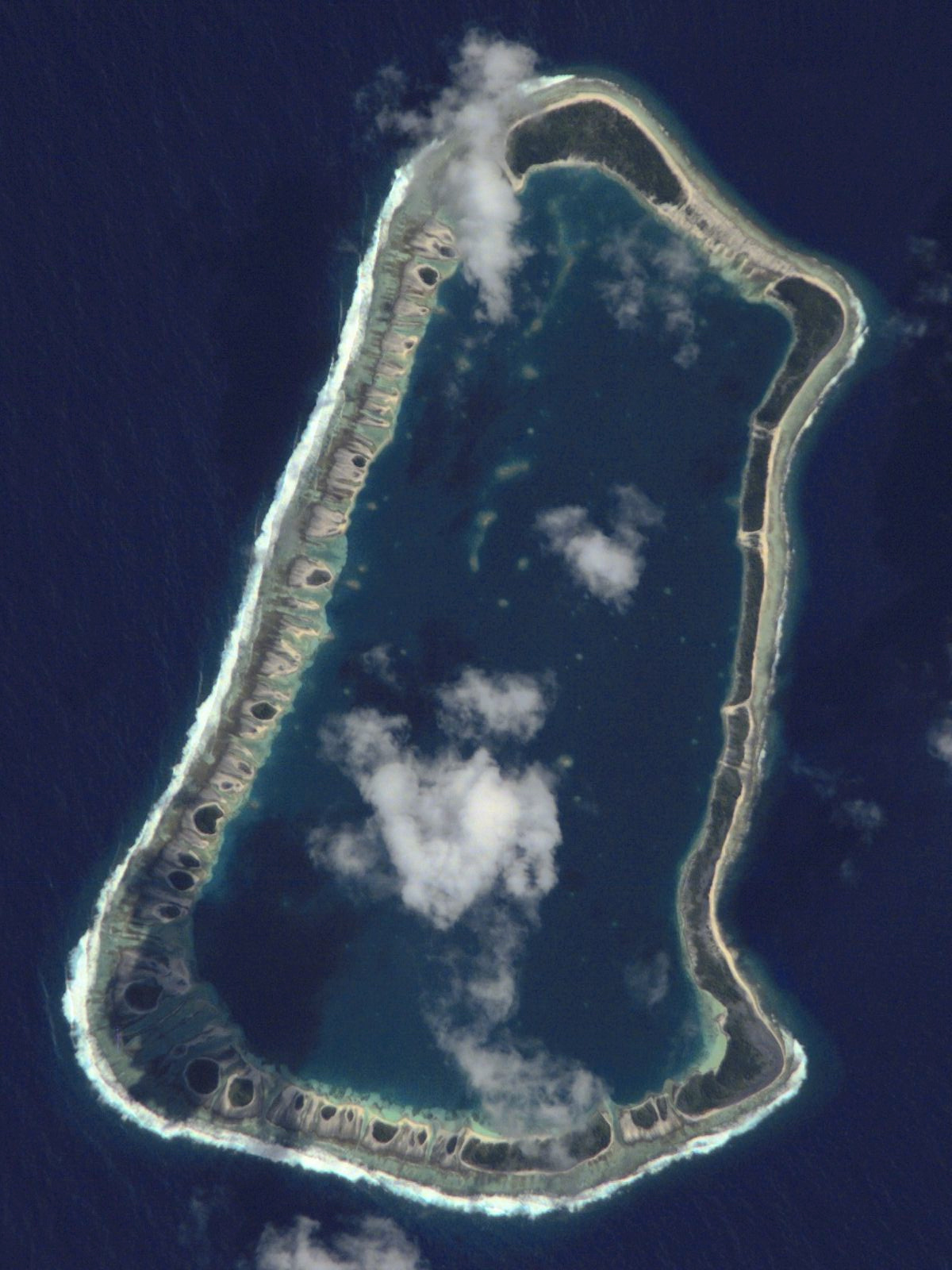 NASA astronaut image of Temoe, Gambier Islands, French Polynesia